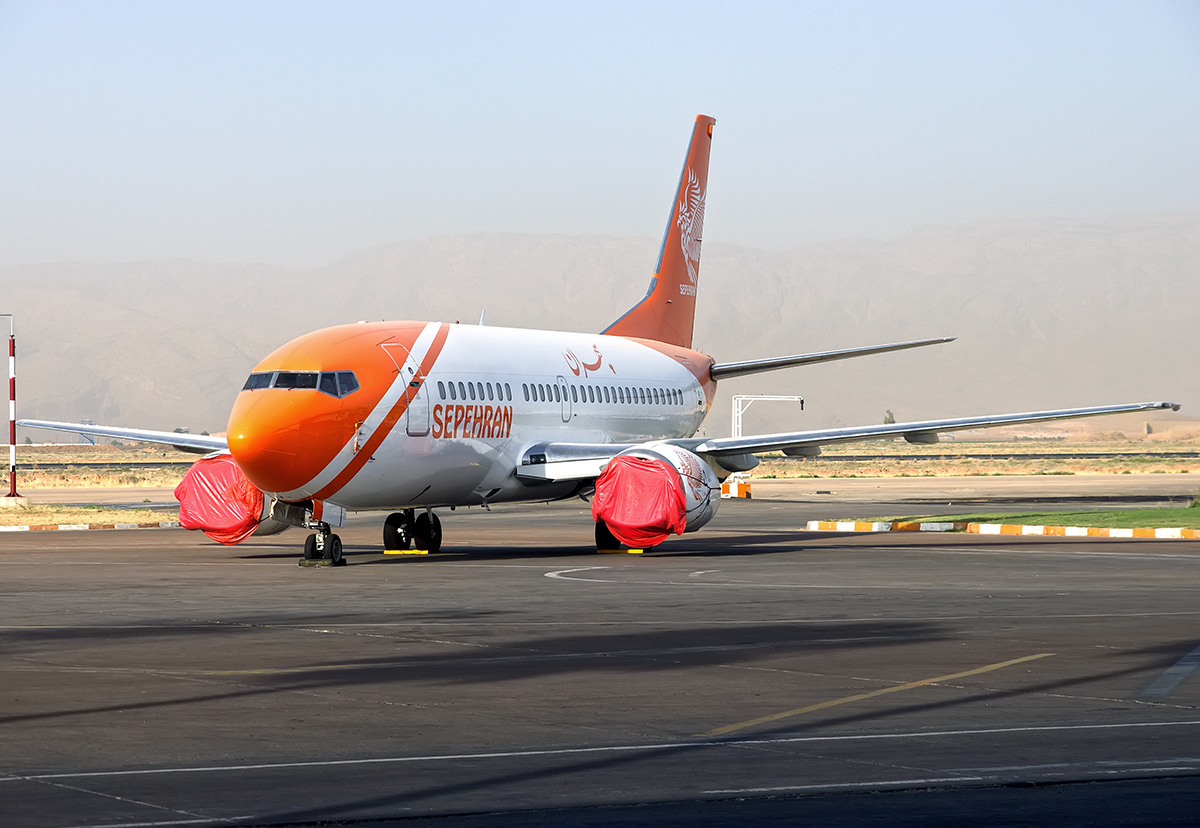 Sepehran Airlines Boeing 737-500 at Shiraz Airport